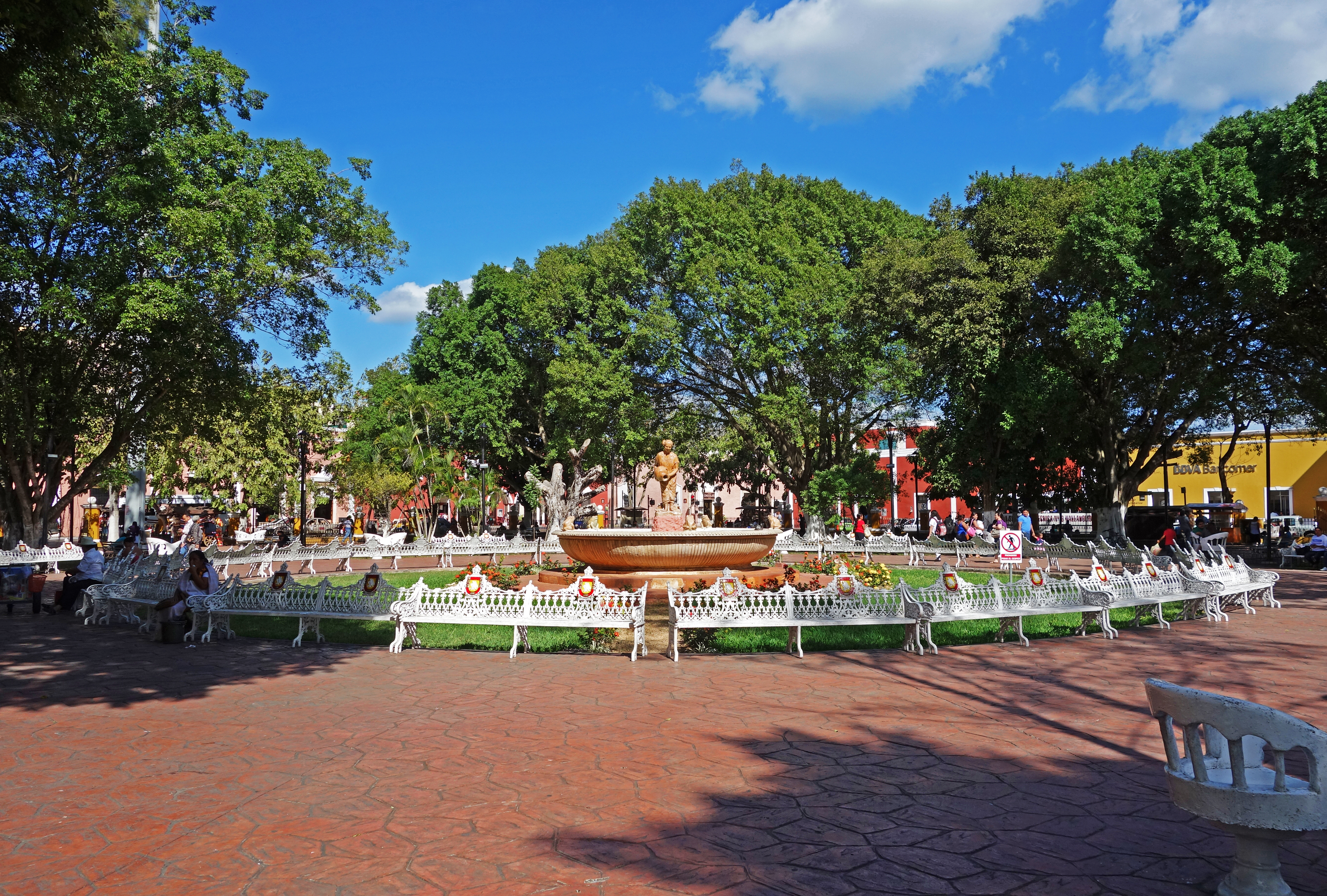 Francisco Cantón Park in Valladolid, Yucatán, Mexico